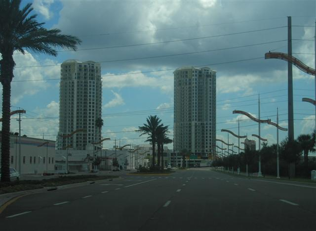 New development in the Channelside District, downtown Tampa, Florida.